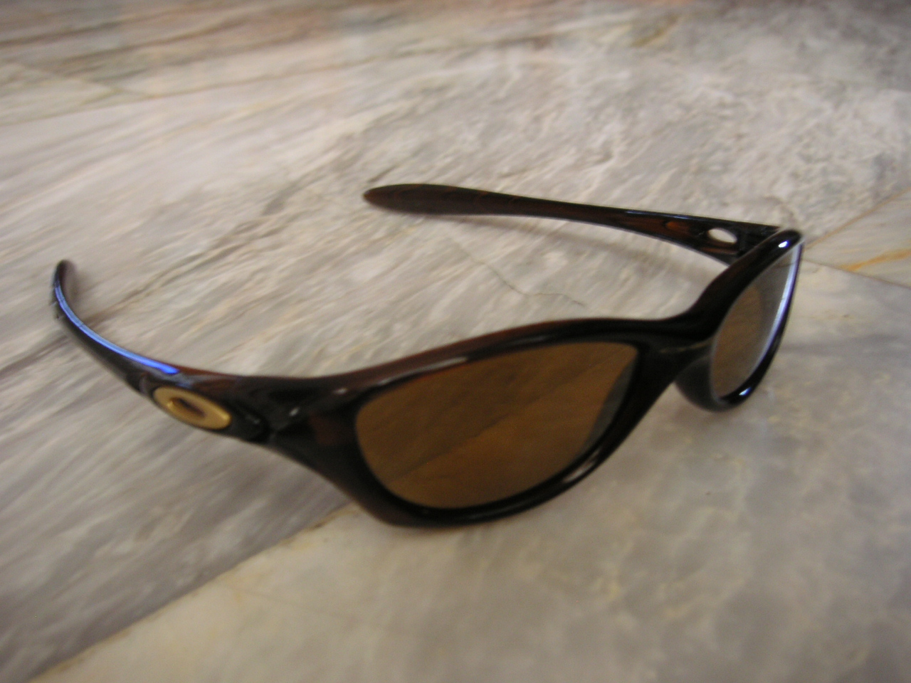 Author's own picture Oakley Faith for women These are Oakley Fate for Women not Faith